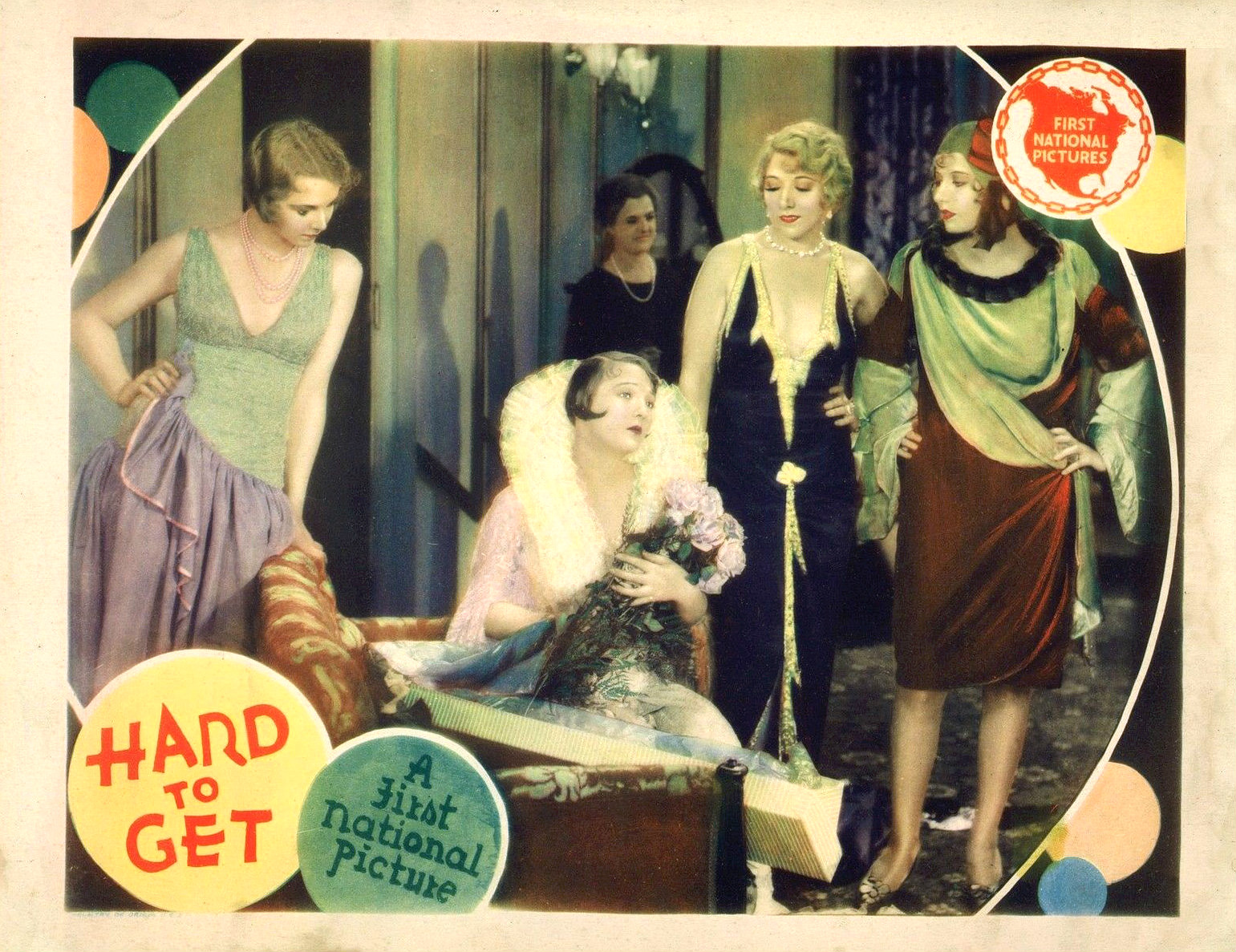 Lobby card from the American comedy film Hard to Get (1929). There are no copyright marks on the card. At bottom left is Country of origin USA (faint).